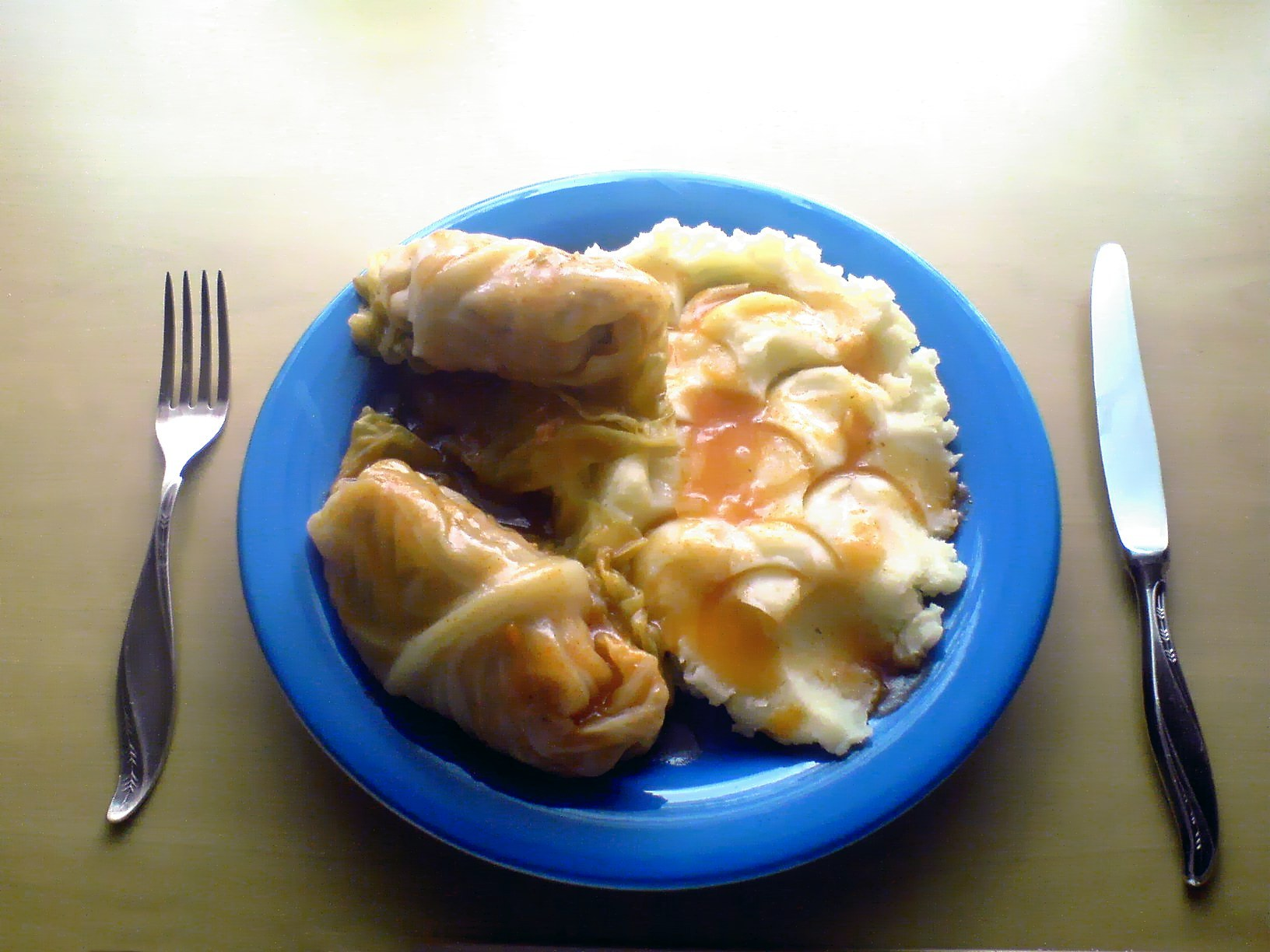 Gołąbki, a polish dish (stuffed cabbage).